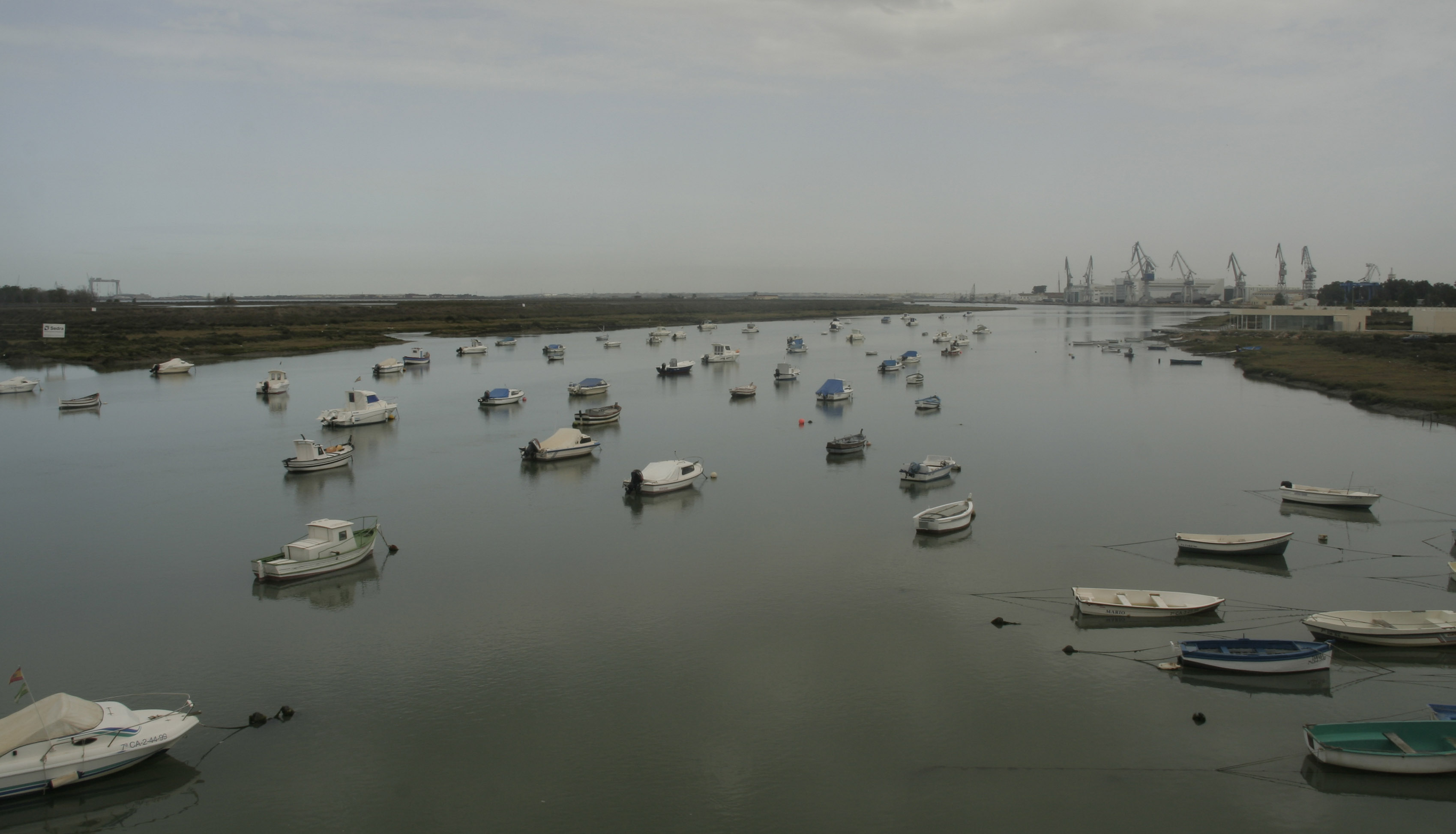 View of Sancti-Petri Channel